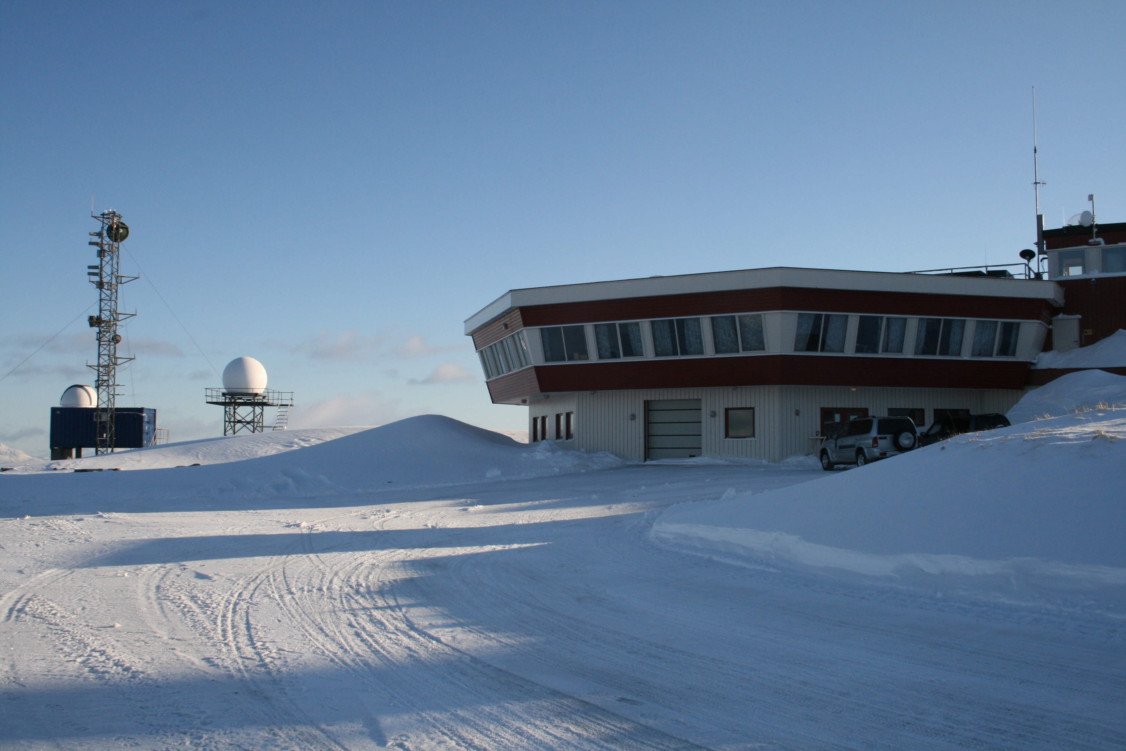 ALOMAR (Arctic Lidar Observatory for Middle Atmosphere Research) outside Andenes, Norway (2008)